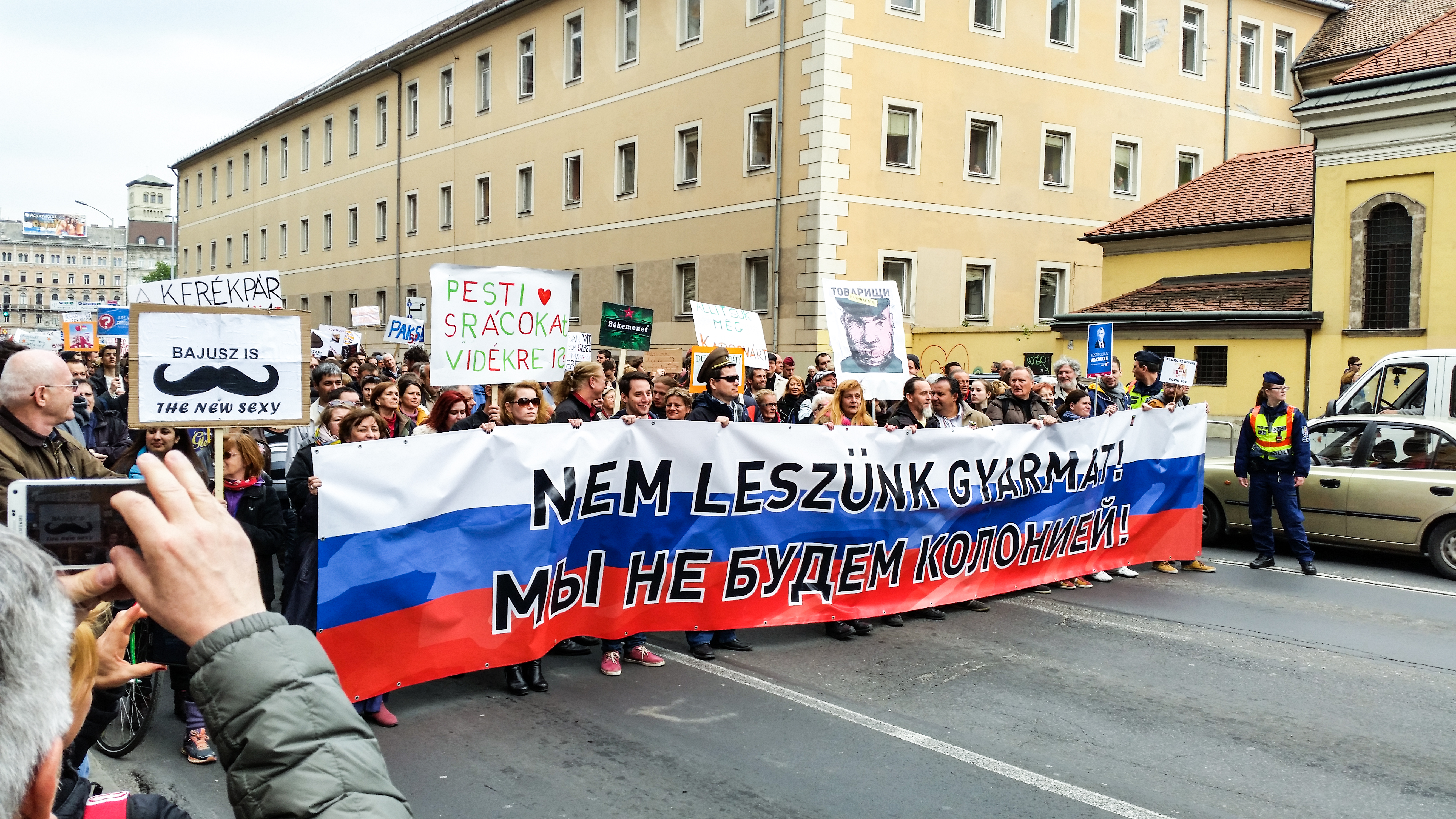 Demonstration of the Hungarian Two-tailed Dog Party in Budapest